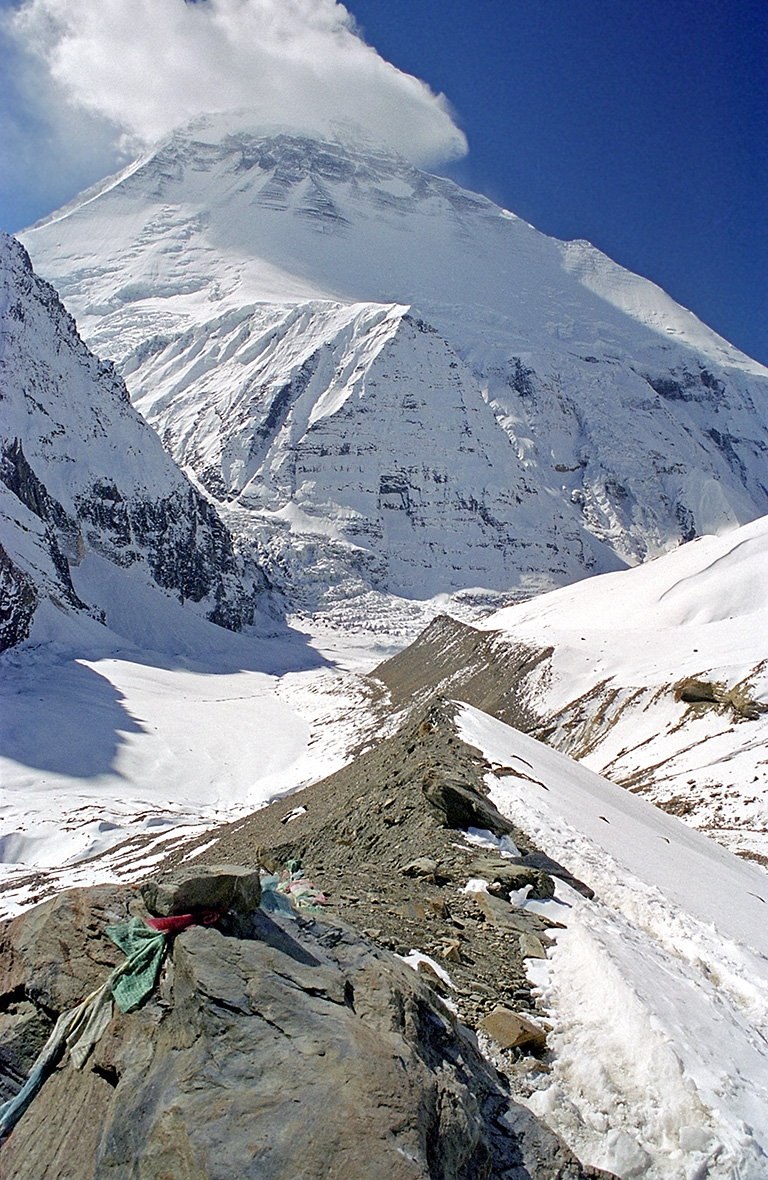 Dhaulagiri North face, northeast ridge (standard route) on top left. The spur in the centre is called Eiger because of its resemblance to the Eiger north face in the Alps.